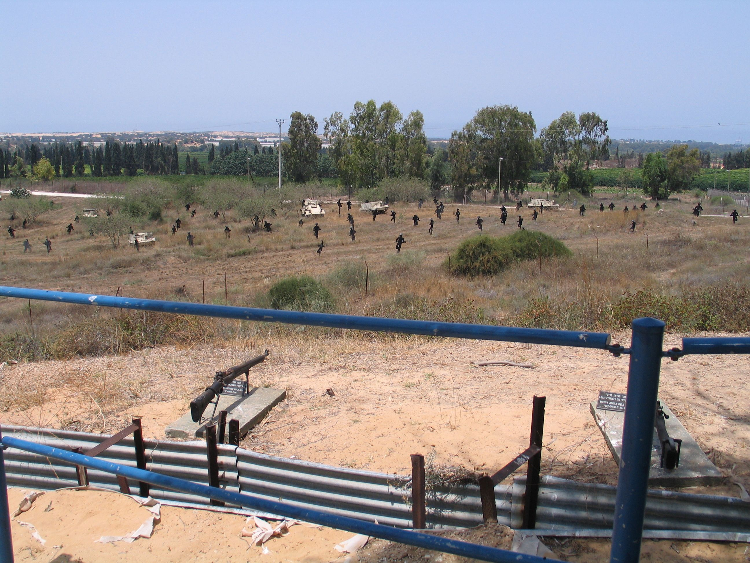 Yad Mordechai battlefield site.